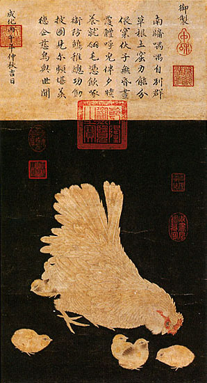 A painting of a mother hen and her chicks, by an anonymous Chinese artist of the Song Dynasty (960–1279). The later Ming Dynasty Emperor Chenghua (r. 1464–1487) inscribed the written euology at the top of the painting, where he describes his fondness for this Song Dynasty era artwork. The use of a black opaque background is a rarity in Chinese painting.